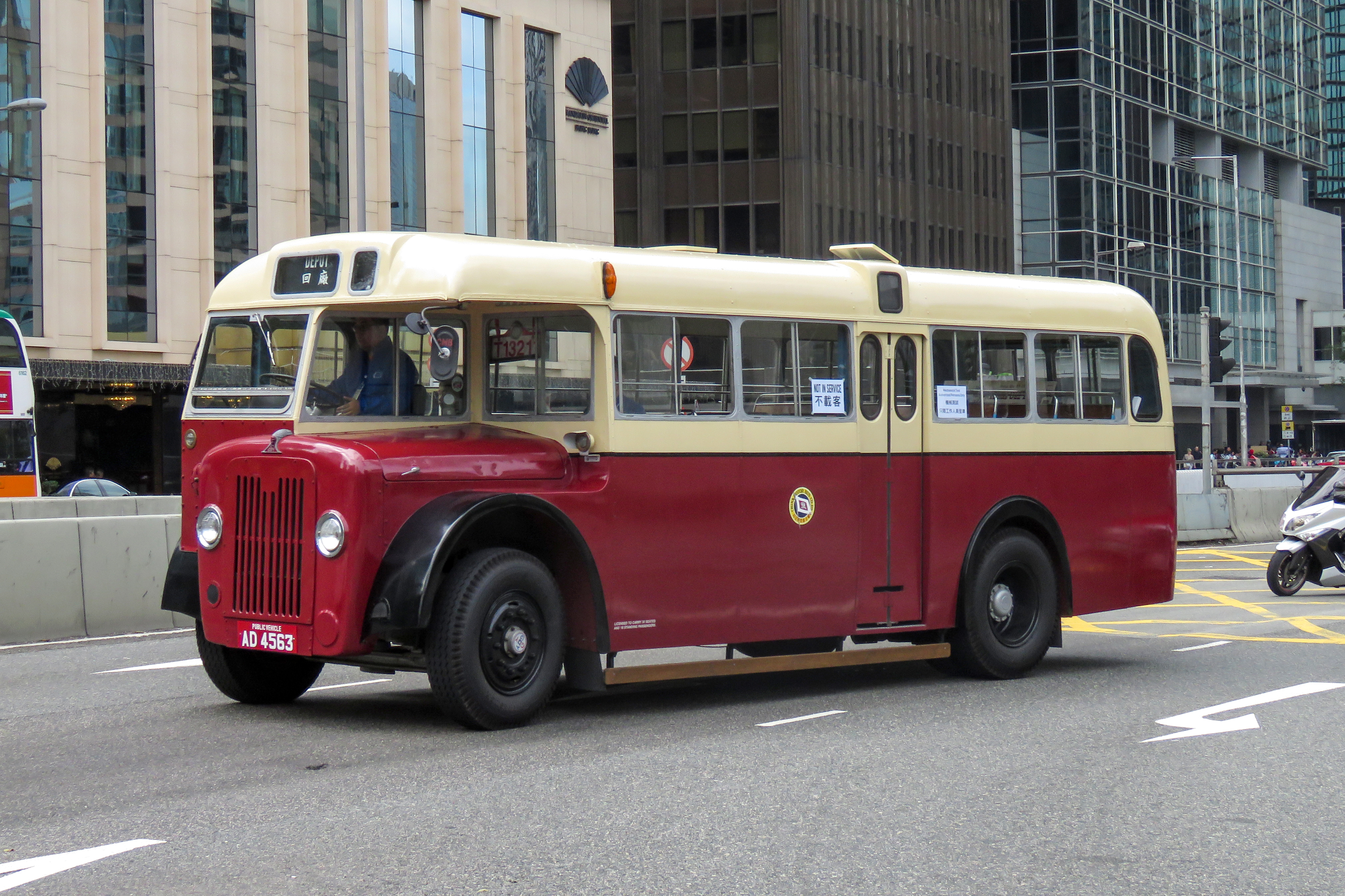 Returning to "depot" - this time the light is not so fine.